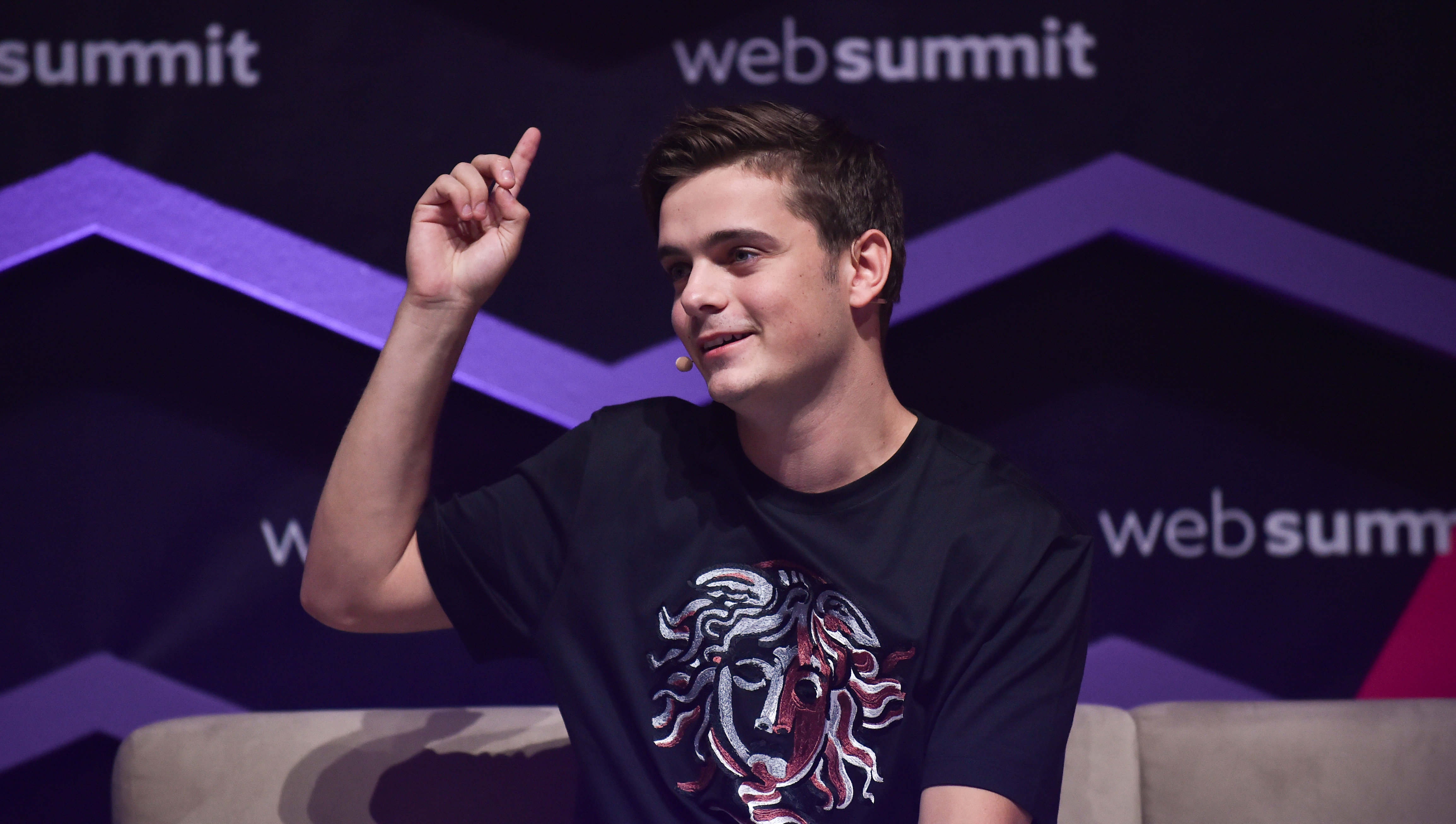 9 November 2017; Martin Garrix, DJ, The Media Nanny, on the MusicNotes Stage during day three of Web Summit 2017 at Altice Arena in Lisbon. Photo by David Fitzgerald/Web Summit via Sportsfile